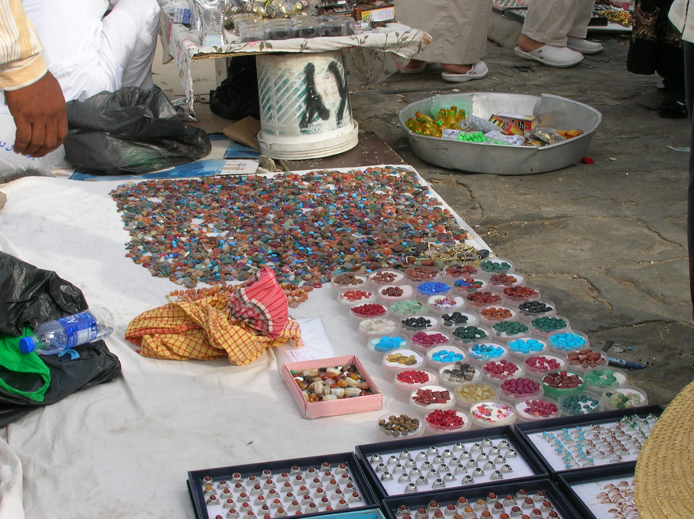 Akik (also Hakeek or agate) stones and rings sold at the apex of Jabal ar-Rahmah (aslo Mount Arafat) in Makkah.